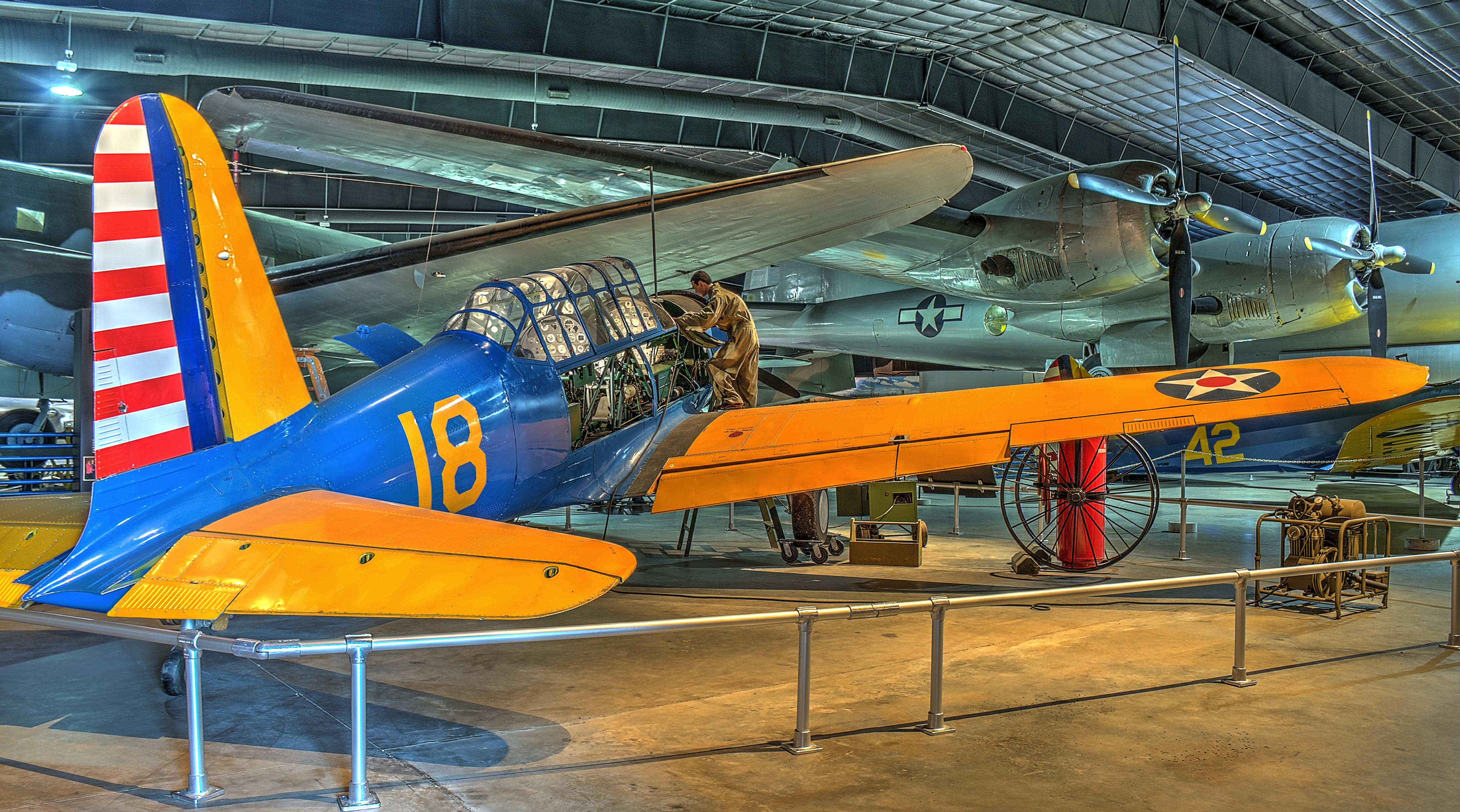 Vultee BT-13 Valiant